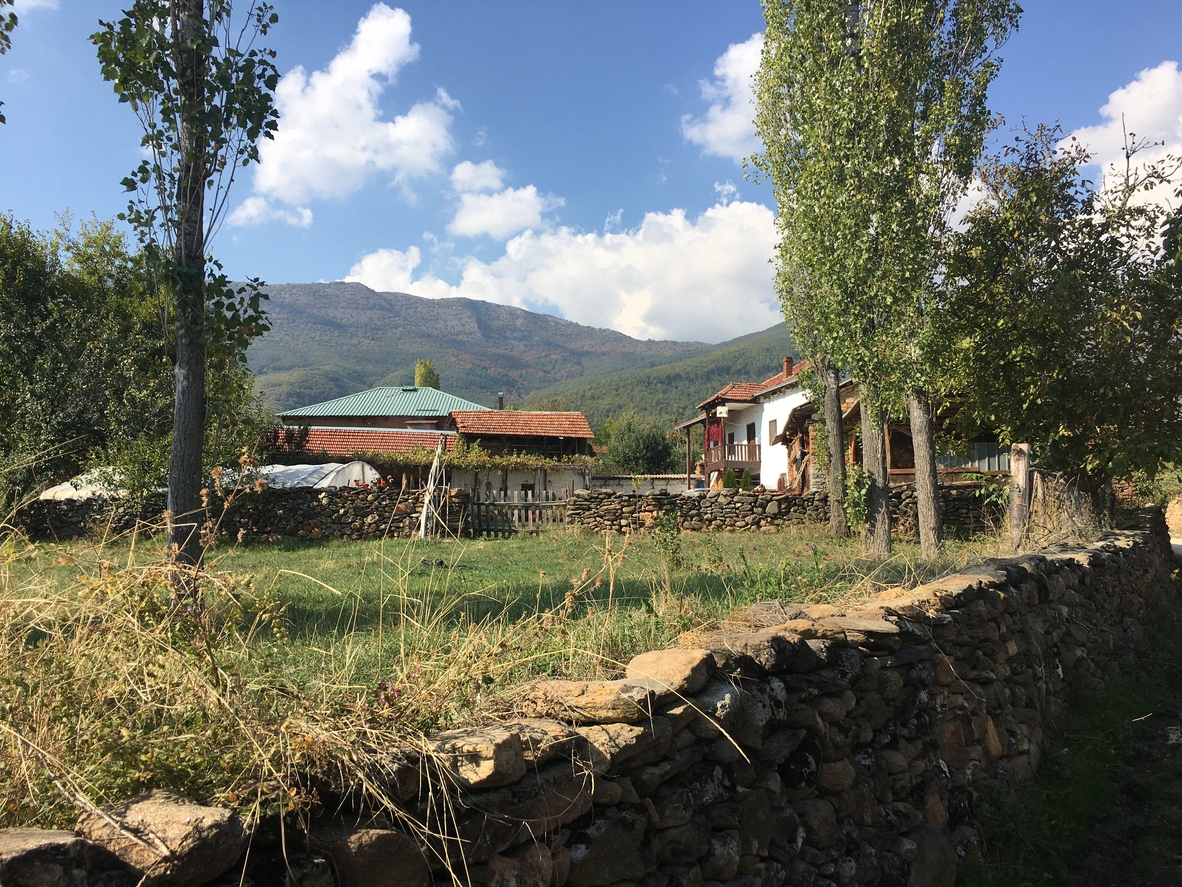 Houses in the village of Dolgaec